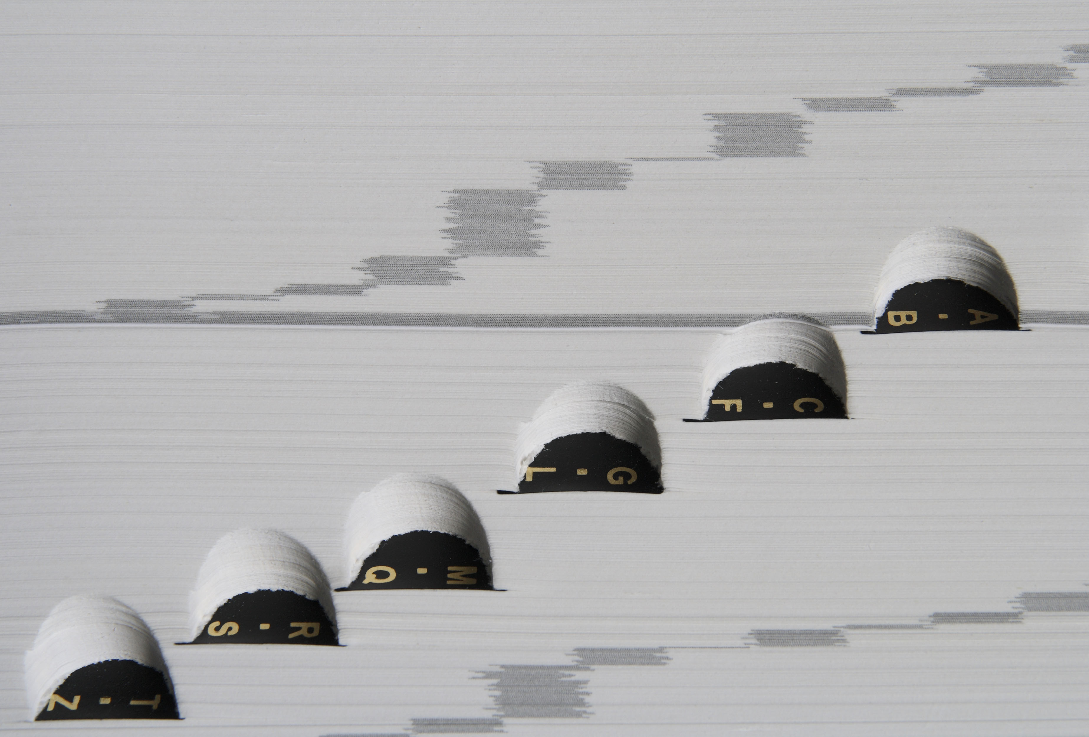 Dictionary indents.